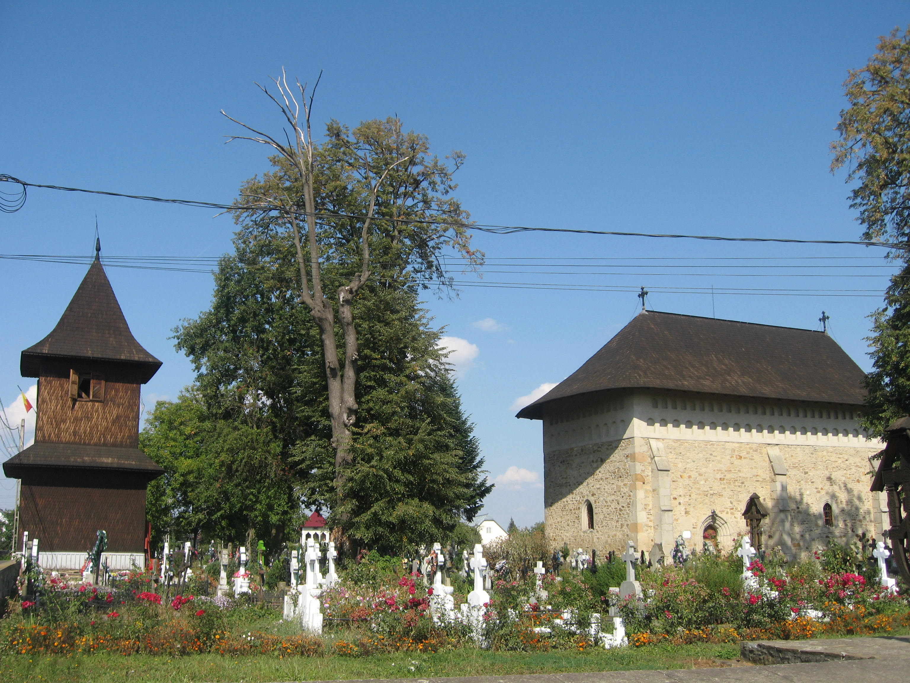 Biserica Înălţarea Sfintei Cruci din Volovăţ